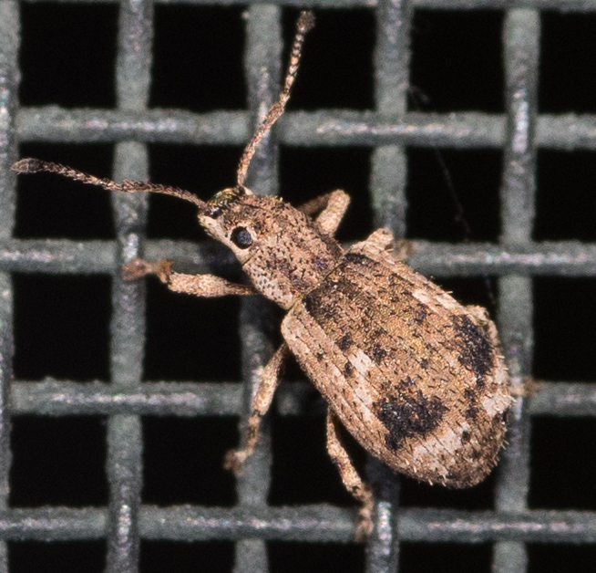 (Oedophrys hilleri) Myersville, Frederick County, Maryland. August 26, 2015.